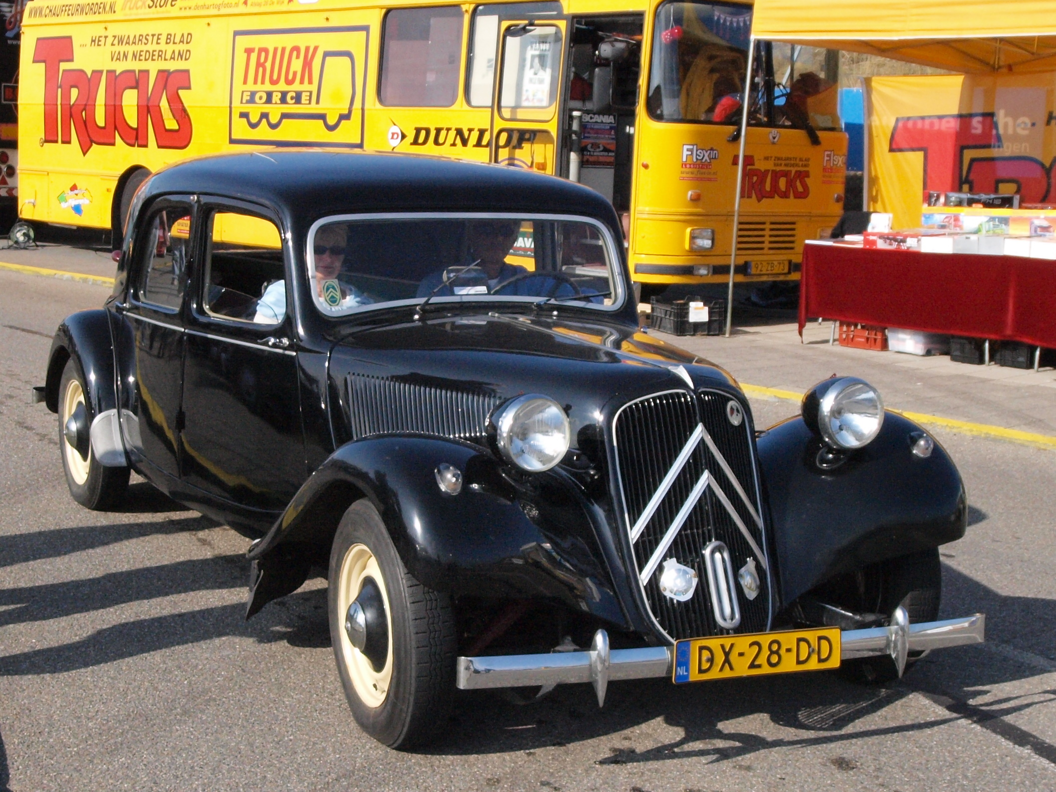 Photographed at the Nationaal Oldtimer Festival Zandvoort 2009, The Netherlands. OLYMPUS DIGITAL CAMERA